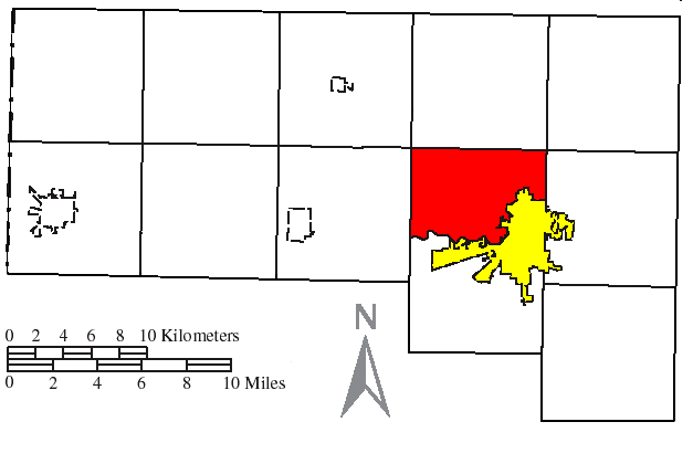 Made by the US Census and modified by myself